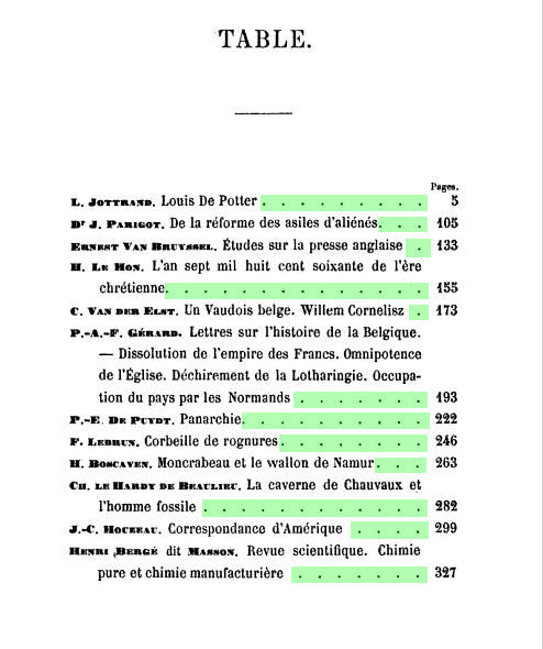 A French table of contents, edited to highlight the leaders in green. The original table of contents is public domain.